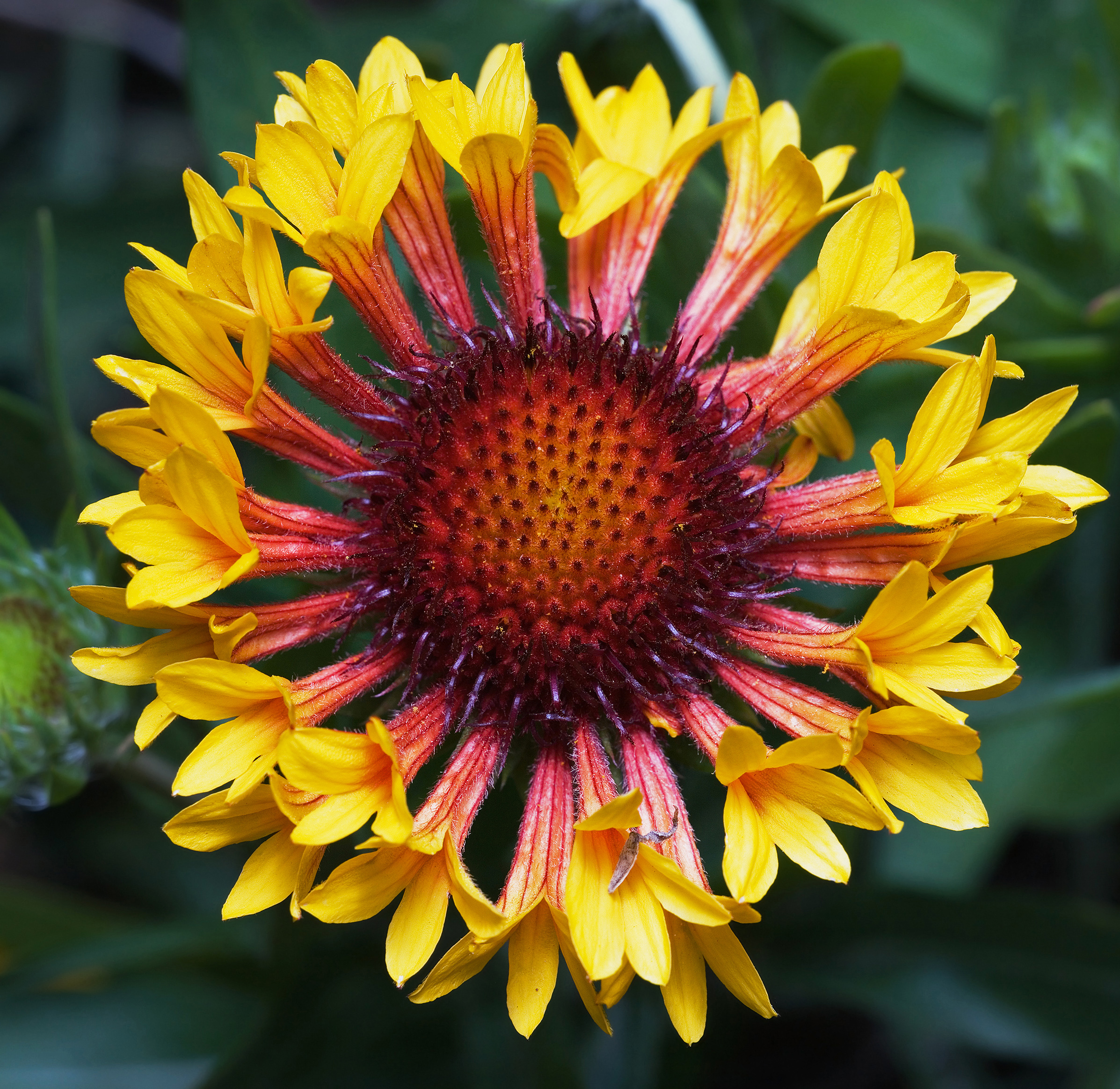 Gaillardia sp. cv 'fanfare' inflorescence in Tasmania, Australia.